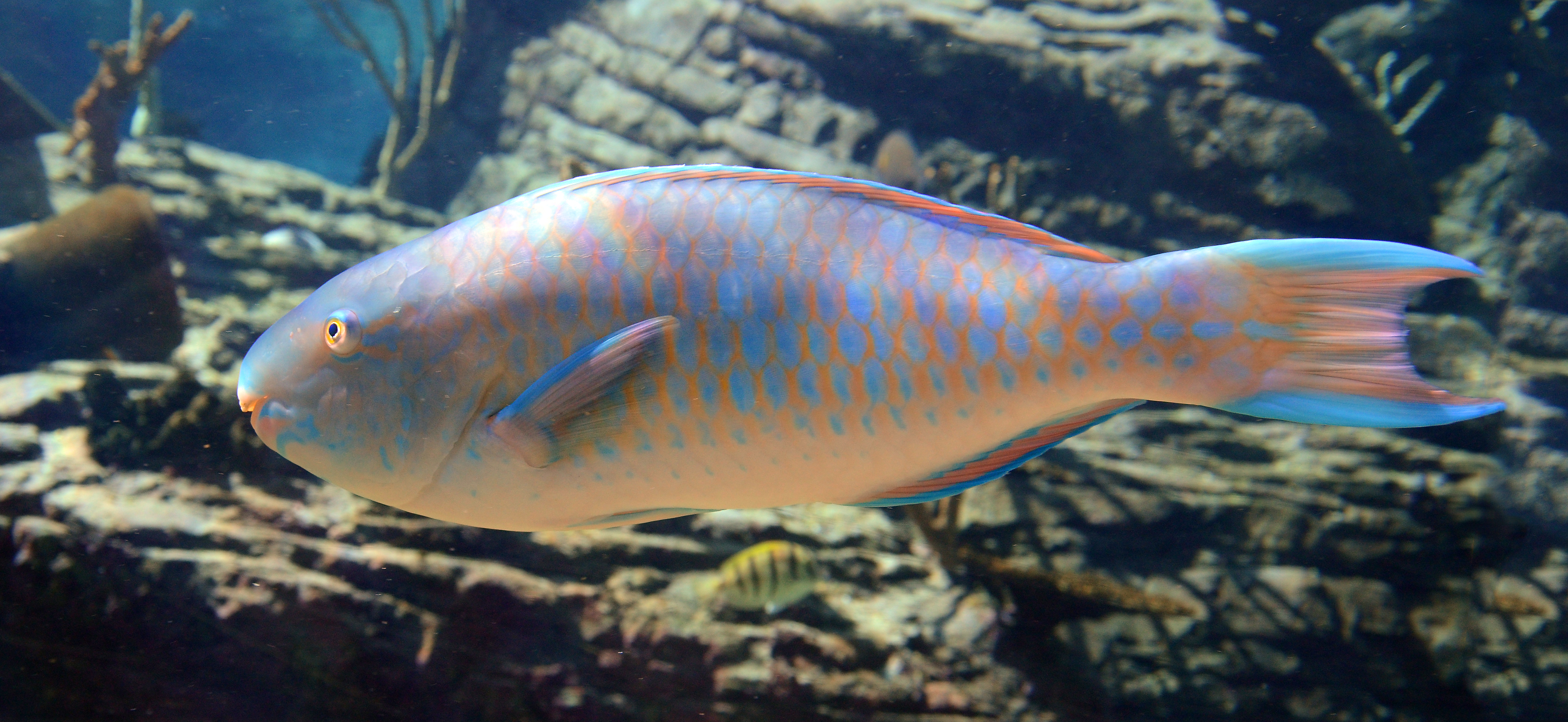 The Blue-barred Parrotfish in UShaka Sea World